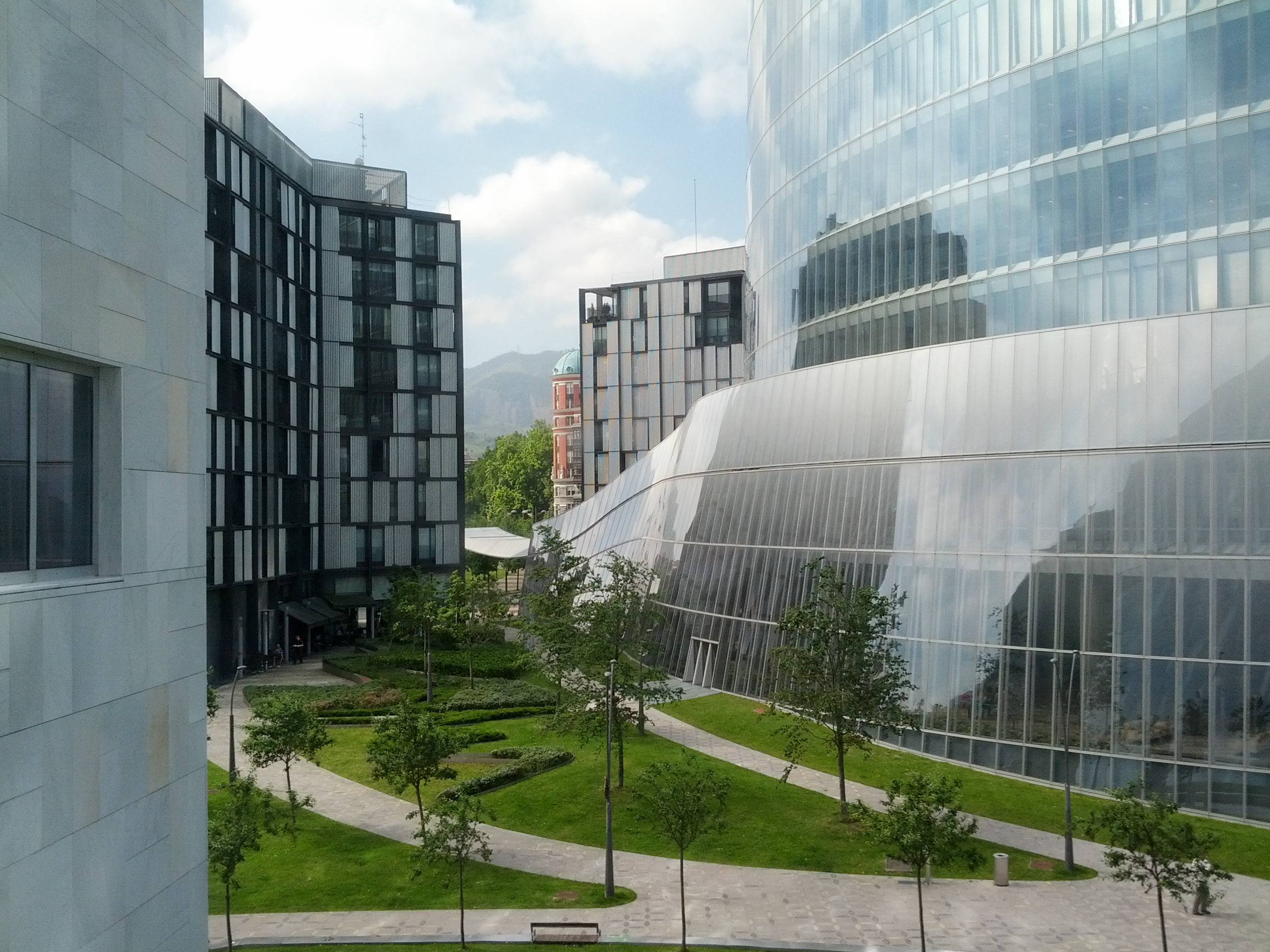 University buildings from conference venue